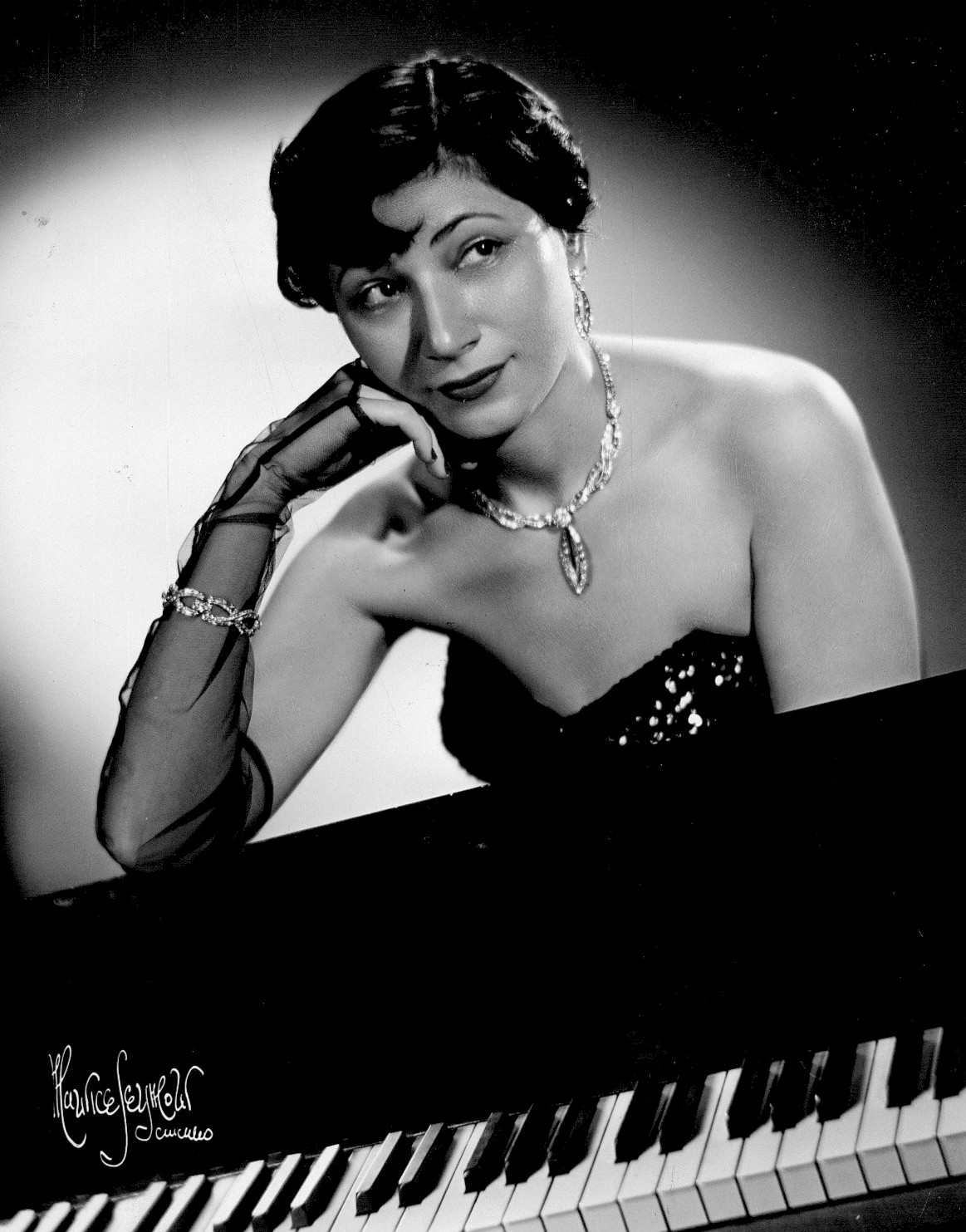 Photo of entertainer Saucy Sylvia. The item has no copyright markings on it as can be seen in the links above.